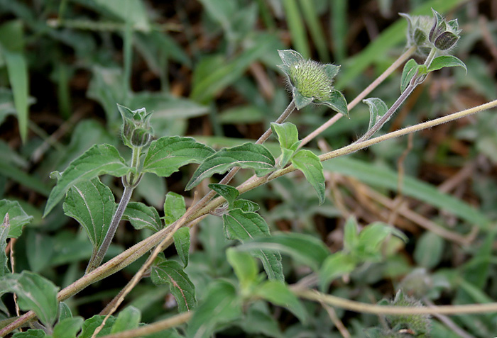 Silkleaf Lagascea mollis in Hyderabad , India.